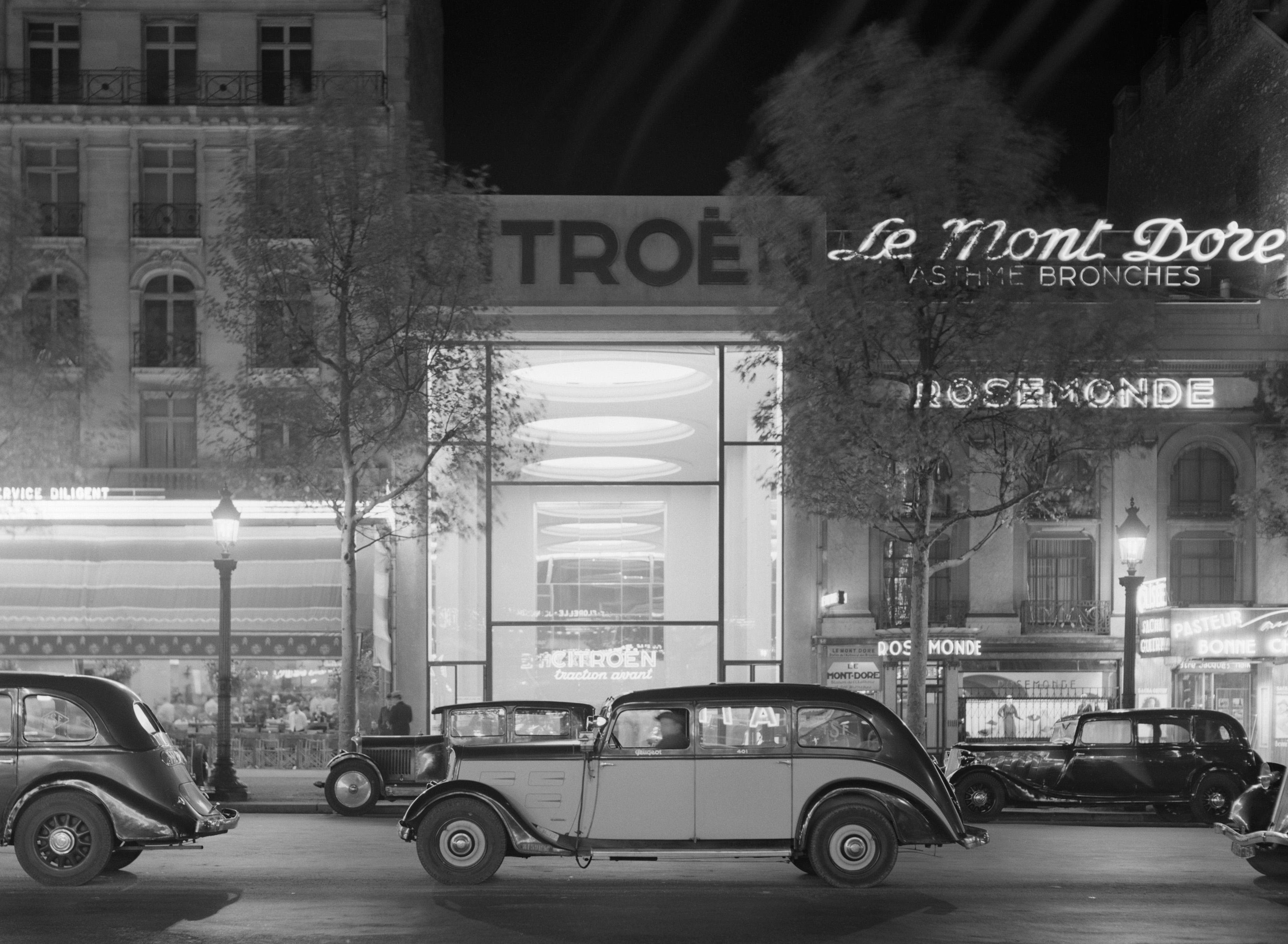 Cars on the Champs-Elysées, with the illuminated Citroën showroom in the background.